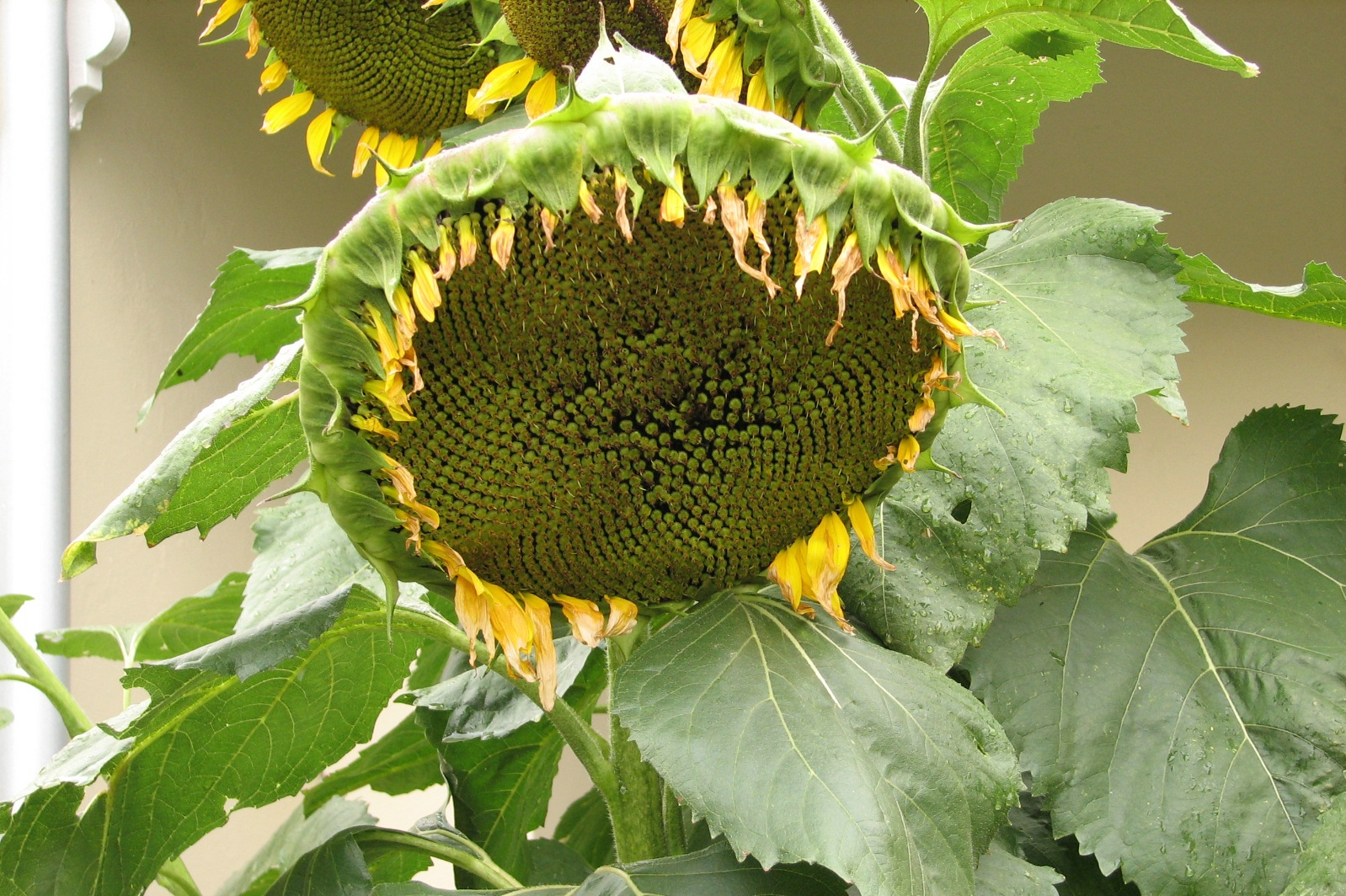 Taken by myself in Bondi, Sydney, Australia on the 23rd December 2006.